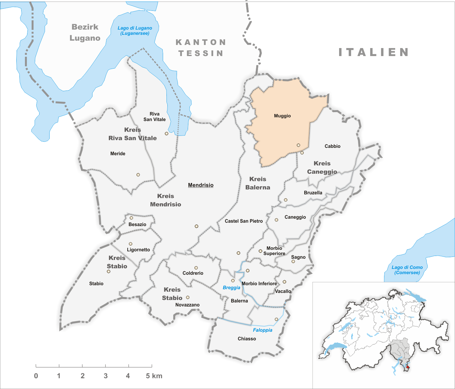 Municipality Muggio Artist: Tschubby